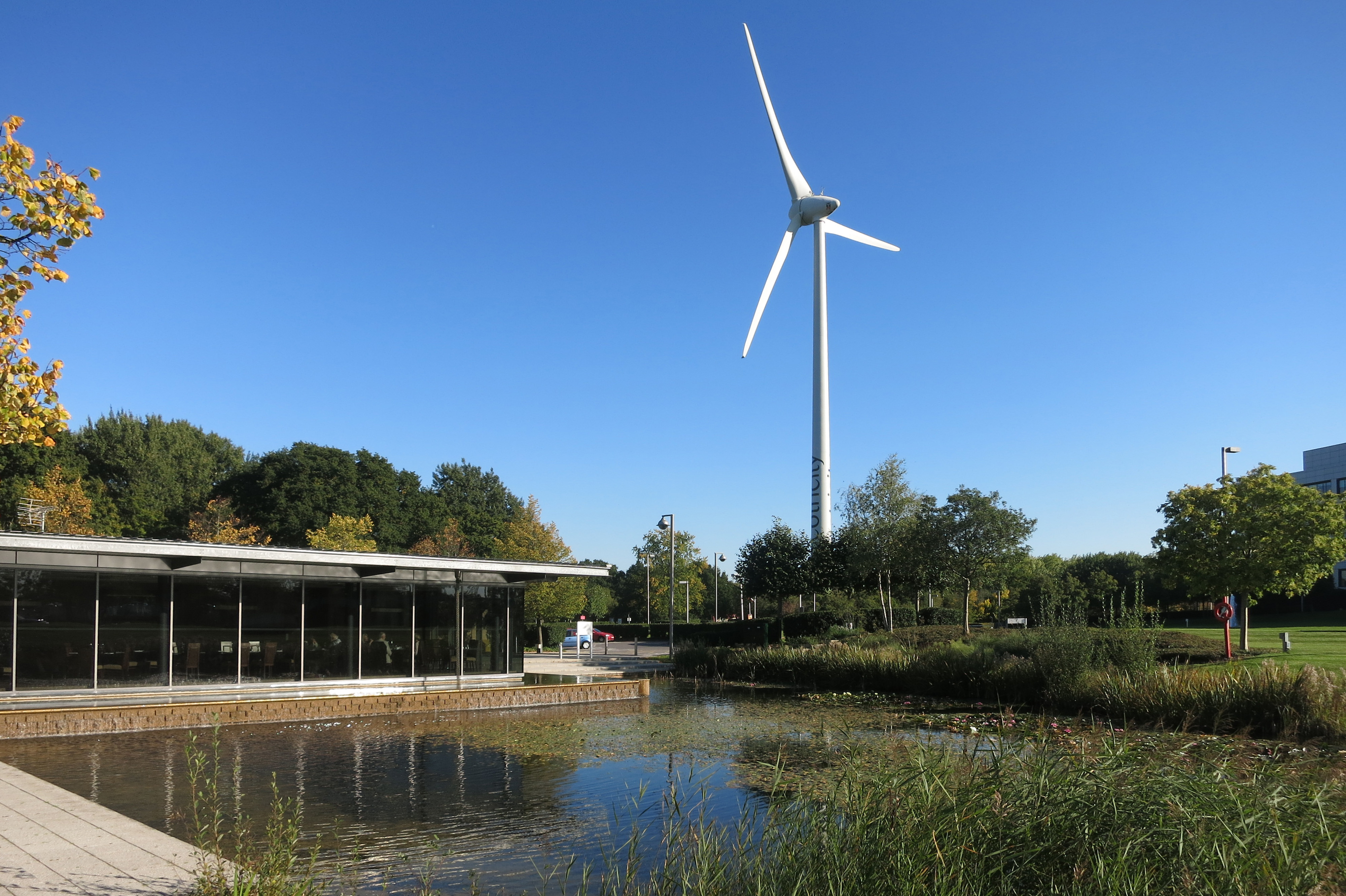 Pond & Turbine, Green Park. Reading's landmark windmill viewed from Lime Square on the Green Park business campus.